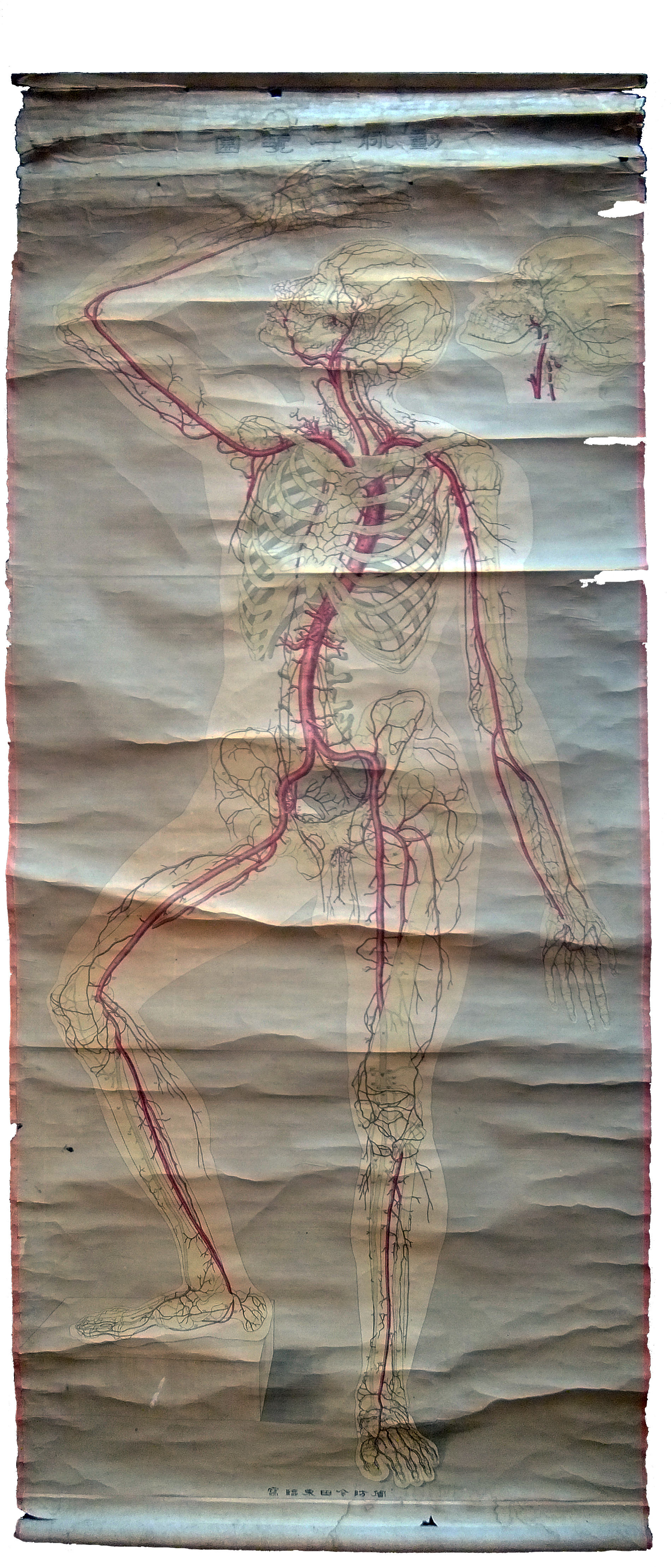 Imada Tsukanu (tr.): Dōmyaku Ichiranzu. Tokyo, 1878 （Anatomical chart of the human artery system. Published by Imada (Tokyo University) based on the Latin chart by Robert Friedrich Froriep (1804–1861).